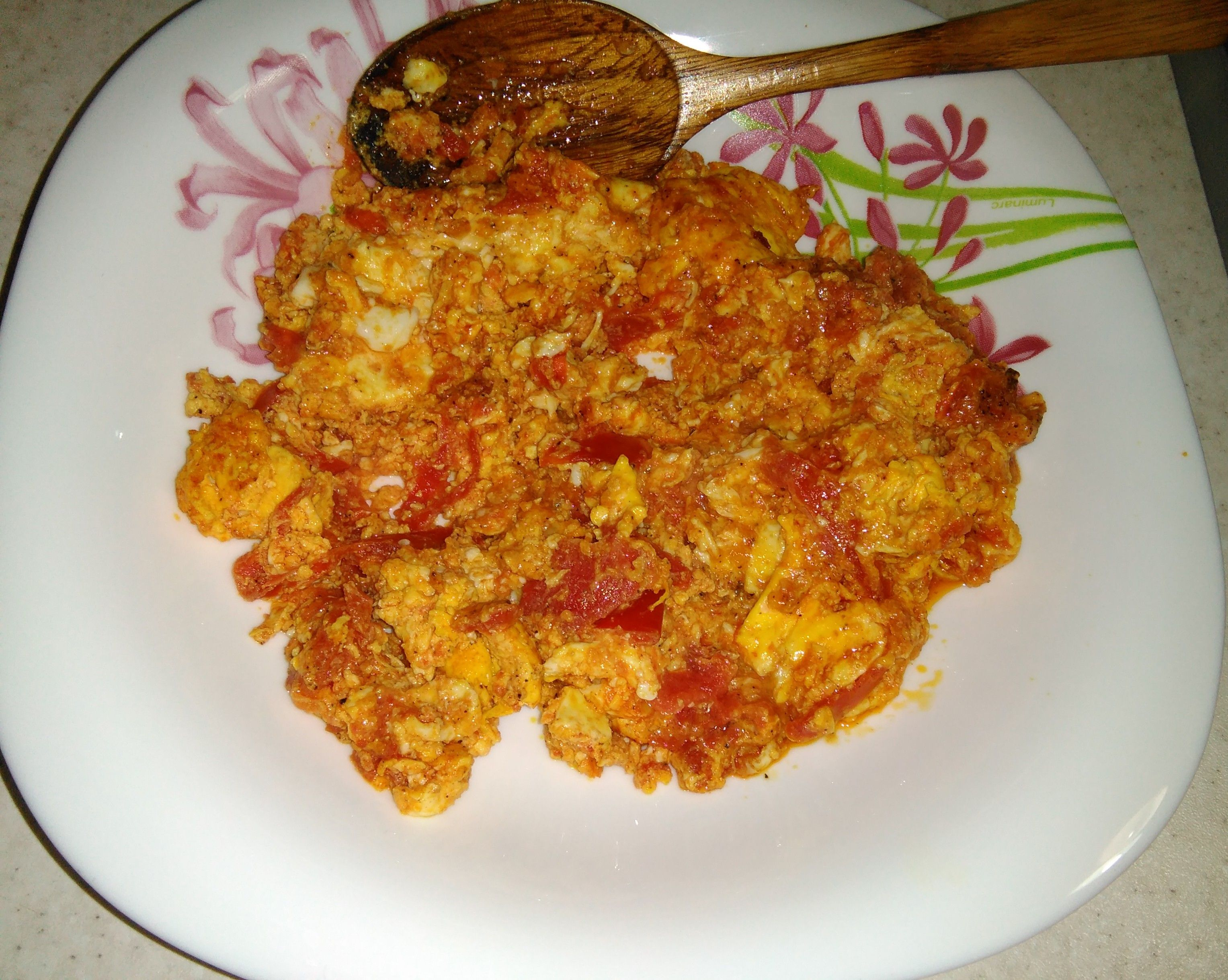 Iranian omelet mixed with tomato